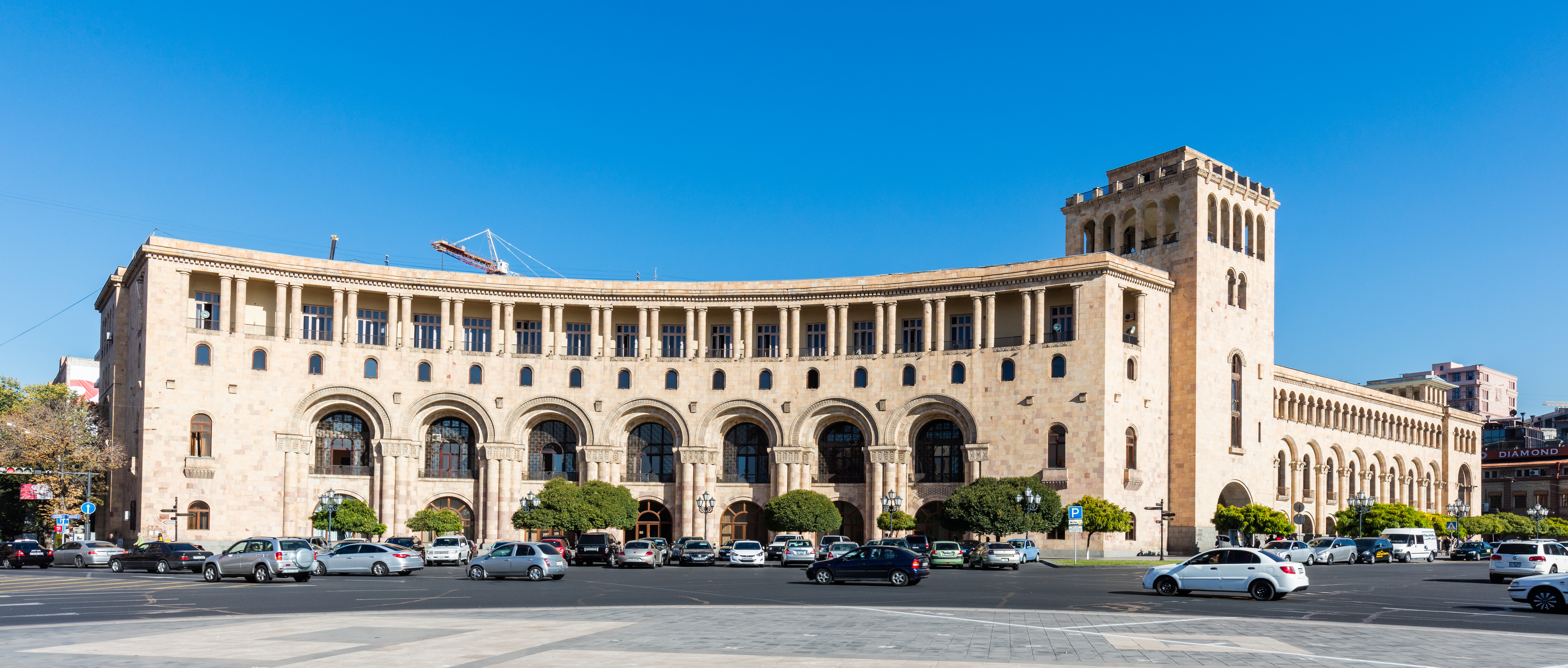 Republic Square, Yerevan, Armenia